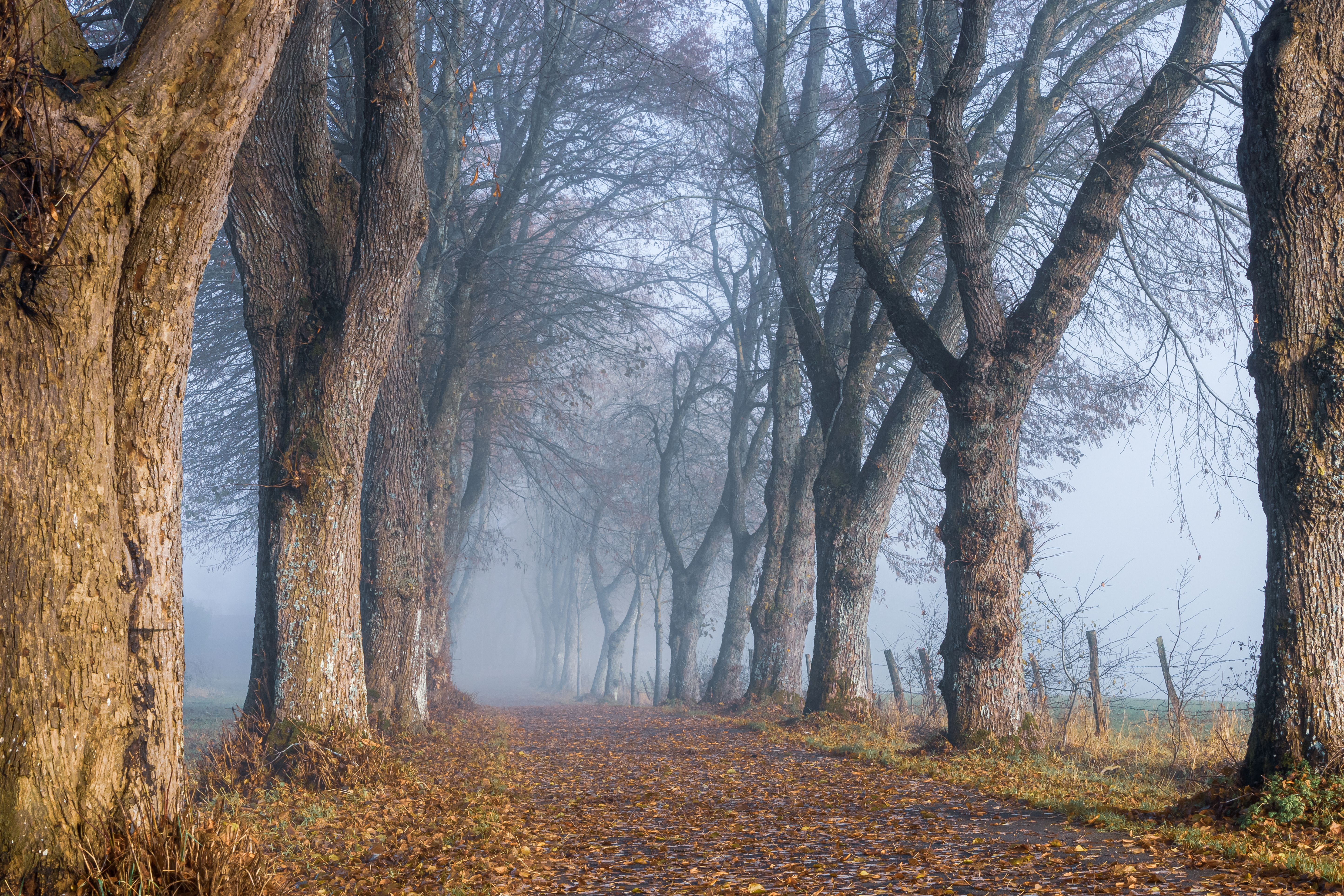 Marienalee in Dahlem, Euskirchen district, in North Rhine-Westphalia, Germany, on a foggy November day